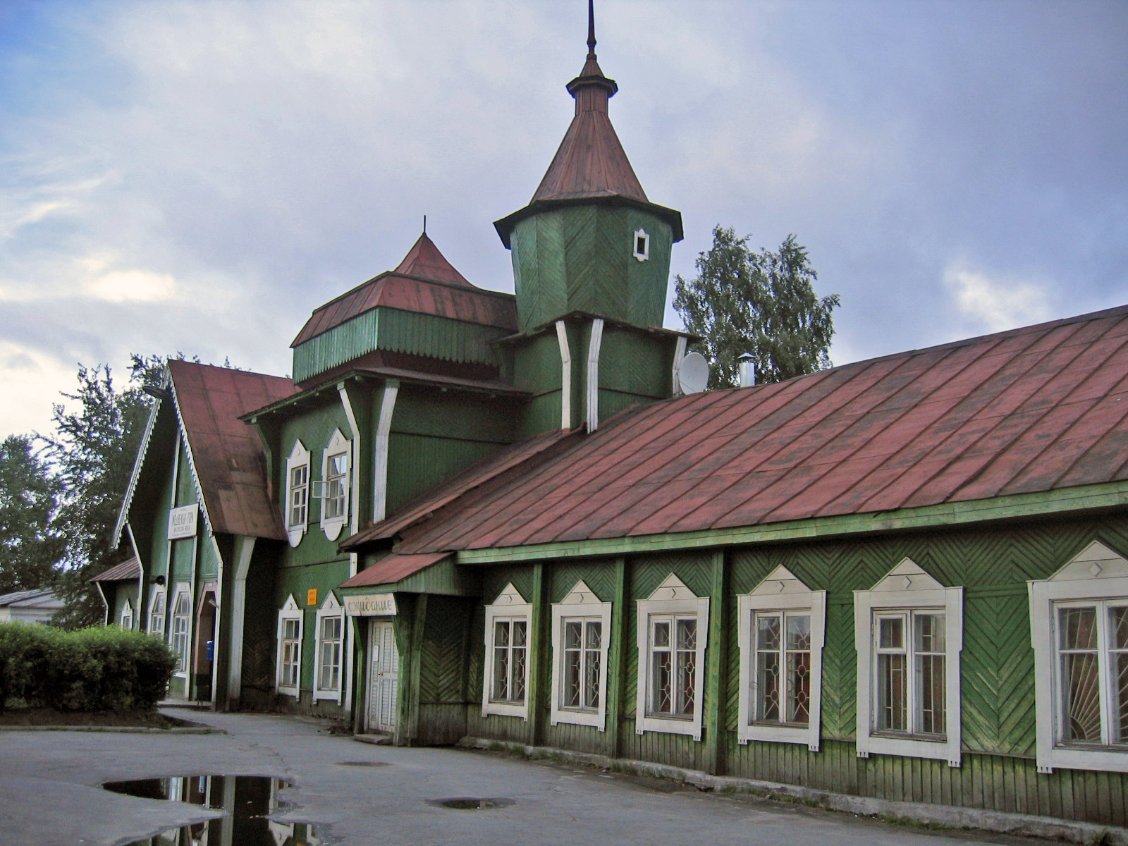 Medvezhyegorsk railway station, Republic of Karelia, Russia (arch. Rufin Gabe, 1916)